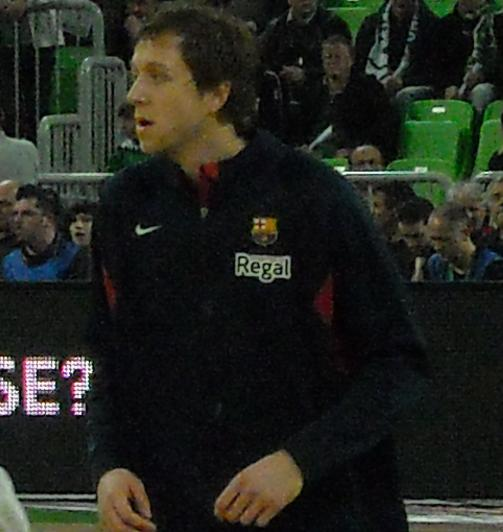 Picture of australian basketballer Joe Ingles taken by ME in Lubiana while watching his game against Olimpia Lubiana